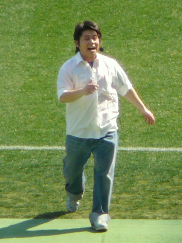 Takahiro Yamamoto is a Japanese comedian.